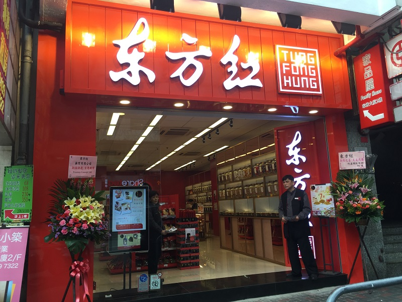 Tung Fong Hung(Kwun Tong)